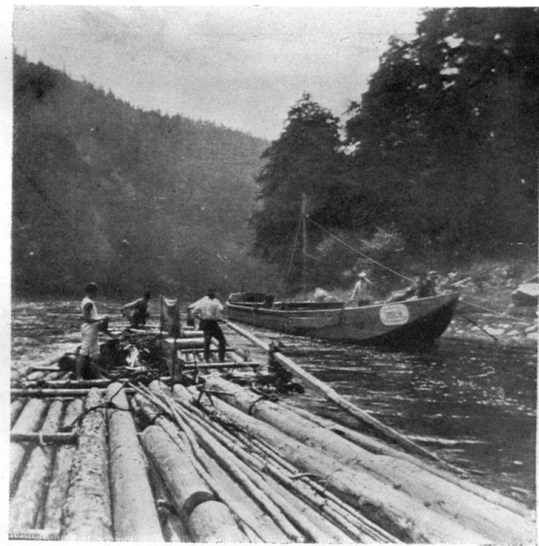 Meeting of wooden raft and river ship at Vltava river near of castle Orlik